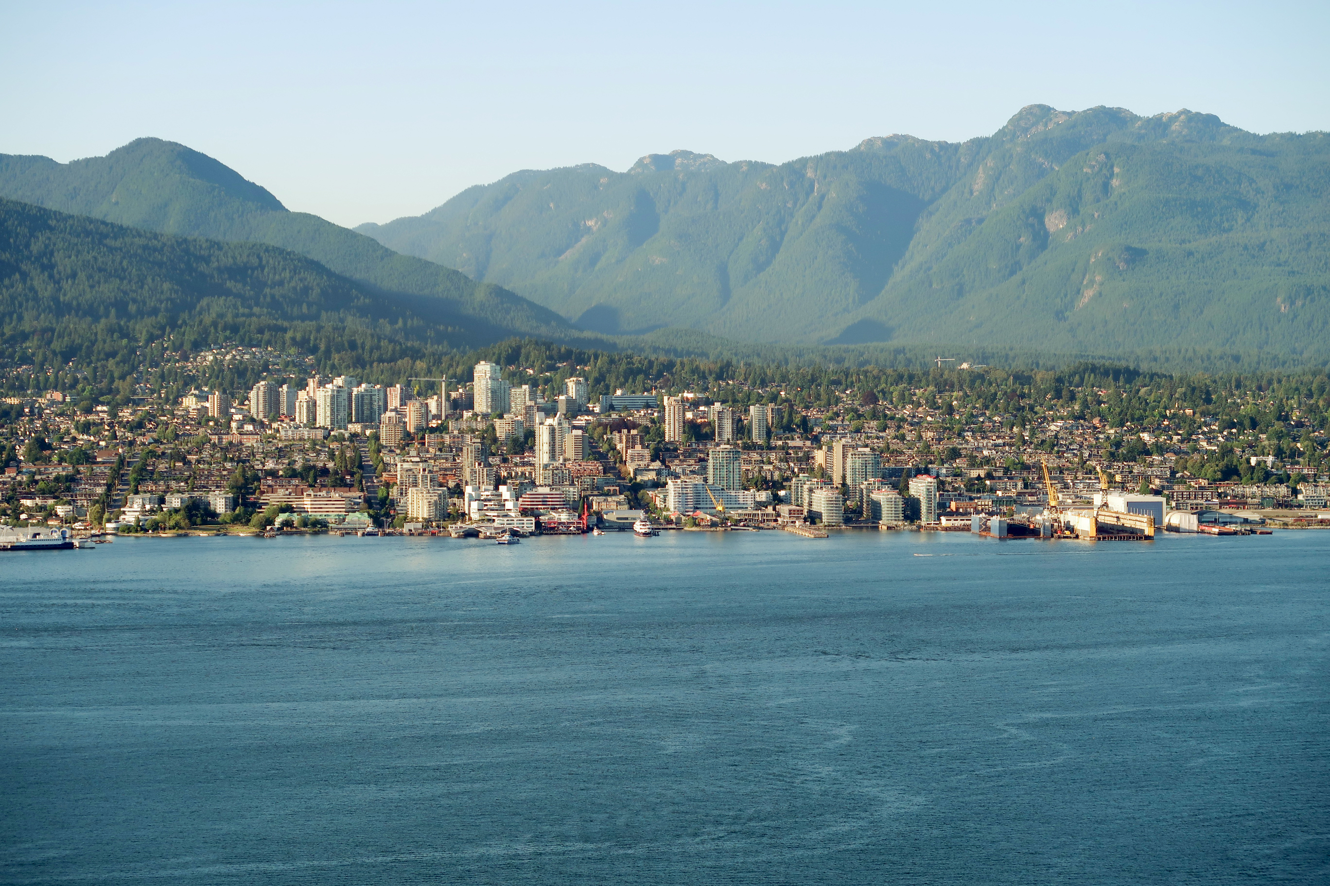 North Vancouver, British Columbia